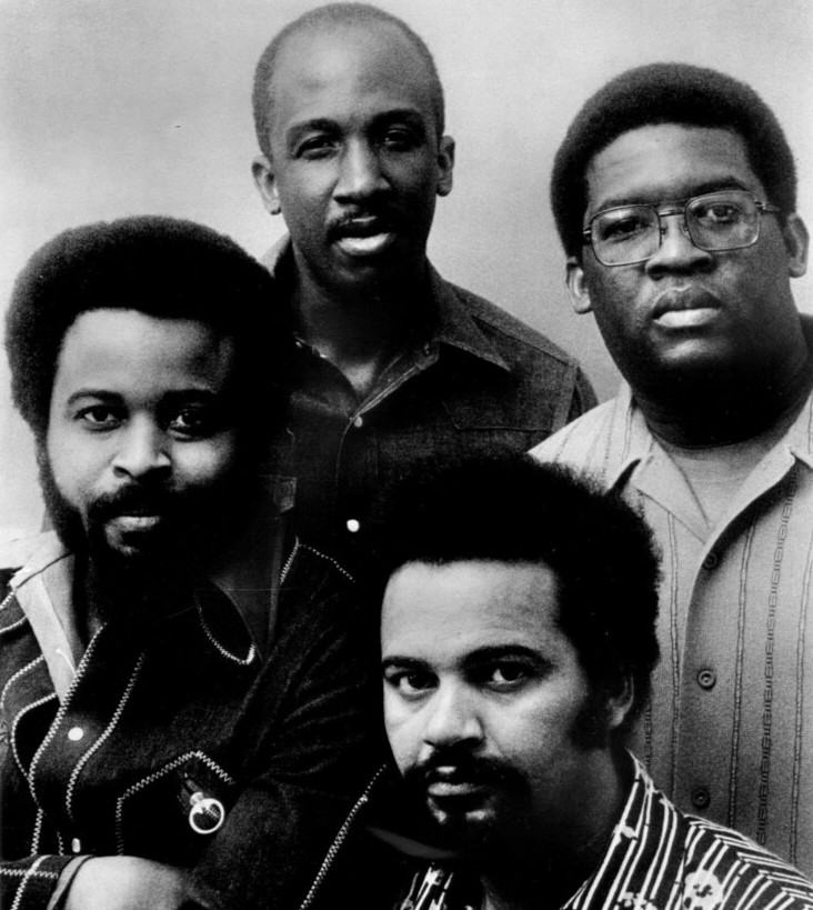 Photo of the jazz group The Crusaders. Clockwise from top-Wilton Felder, Wayne Henderson, Joe Sample and Stix Hooper. Not pictured is Larry Carlton.